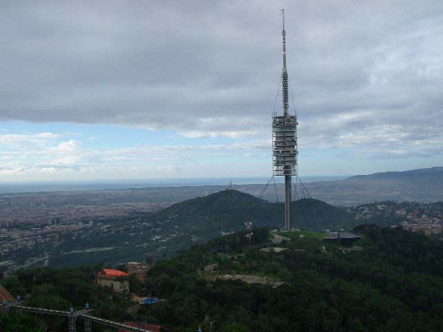 Panoramic view of the Collserola Tower (over the Turó de la Vilana summit), and the hills Turó de'n Cors and Sant Pere Màrtir (with a minor telecommunication station in his summit), next to the Vallividrera area (at the right of the picture) from the Tibidabo summit